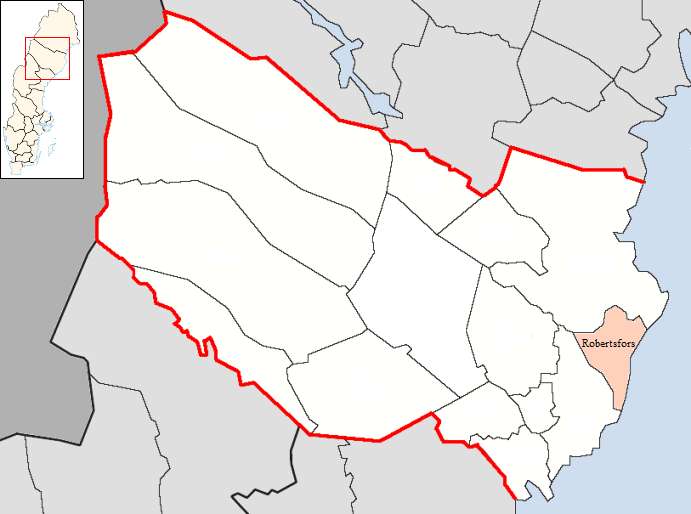 Robertsfors Municipality in Västerbotten County Designed by me. Mere outlines are a PD source from